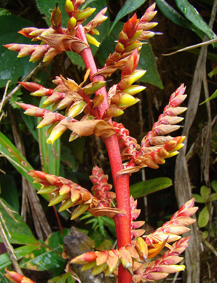 A detailed view of this large bromeliad from the Condor Range of Ecuador and Peru. In context at